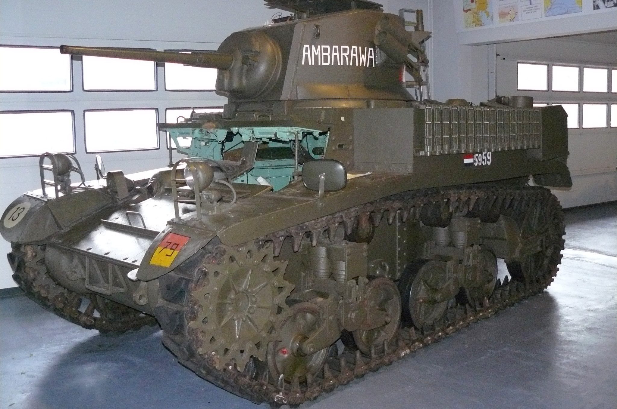 M3A1 Stuart tank in Cavaleriemuseum in Amersfoort. The tank was a gift from Indonesia. Some 44 tanks from the Dutch Army were active in the country between 1946 and 1950.